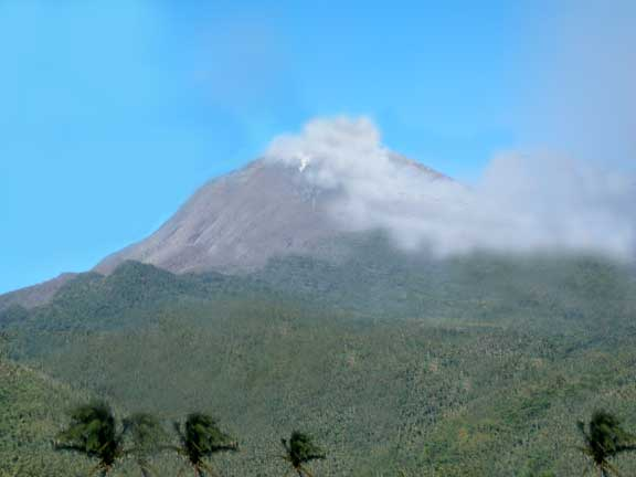 Mount Bulusan I am the copyright holder of this image. I took the image with my digital camera during my February visit to the Philippines author: Michael Mayo